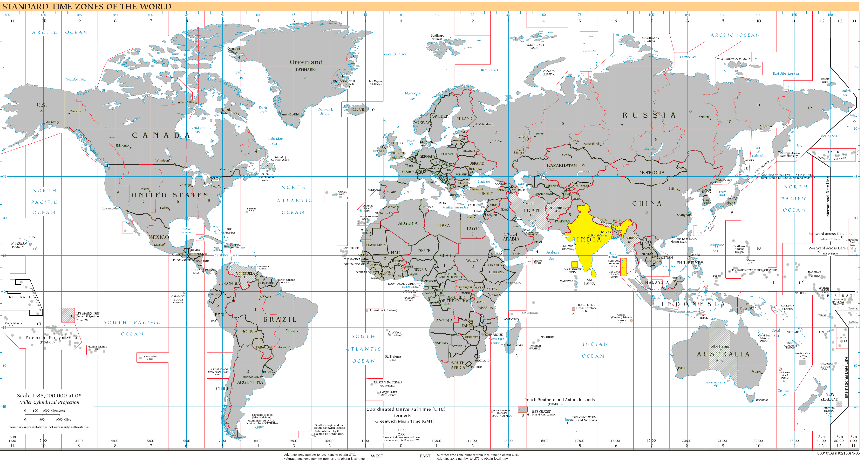 World map of time zones as of June 2008. Highligting UTC+5:30 Yellow - UTC+5:30 all year round